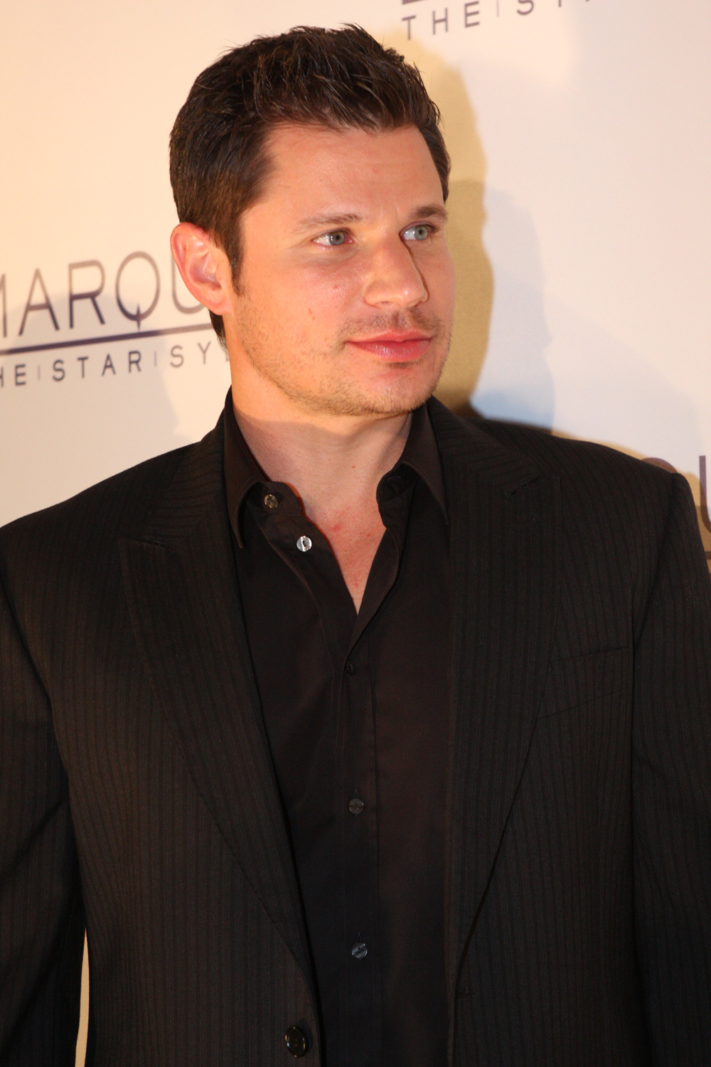 Nick Lachey at the opening of the Marquee The Star, Sydney, Australia